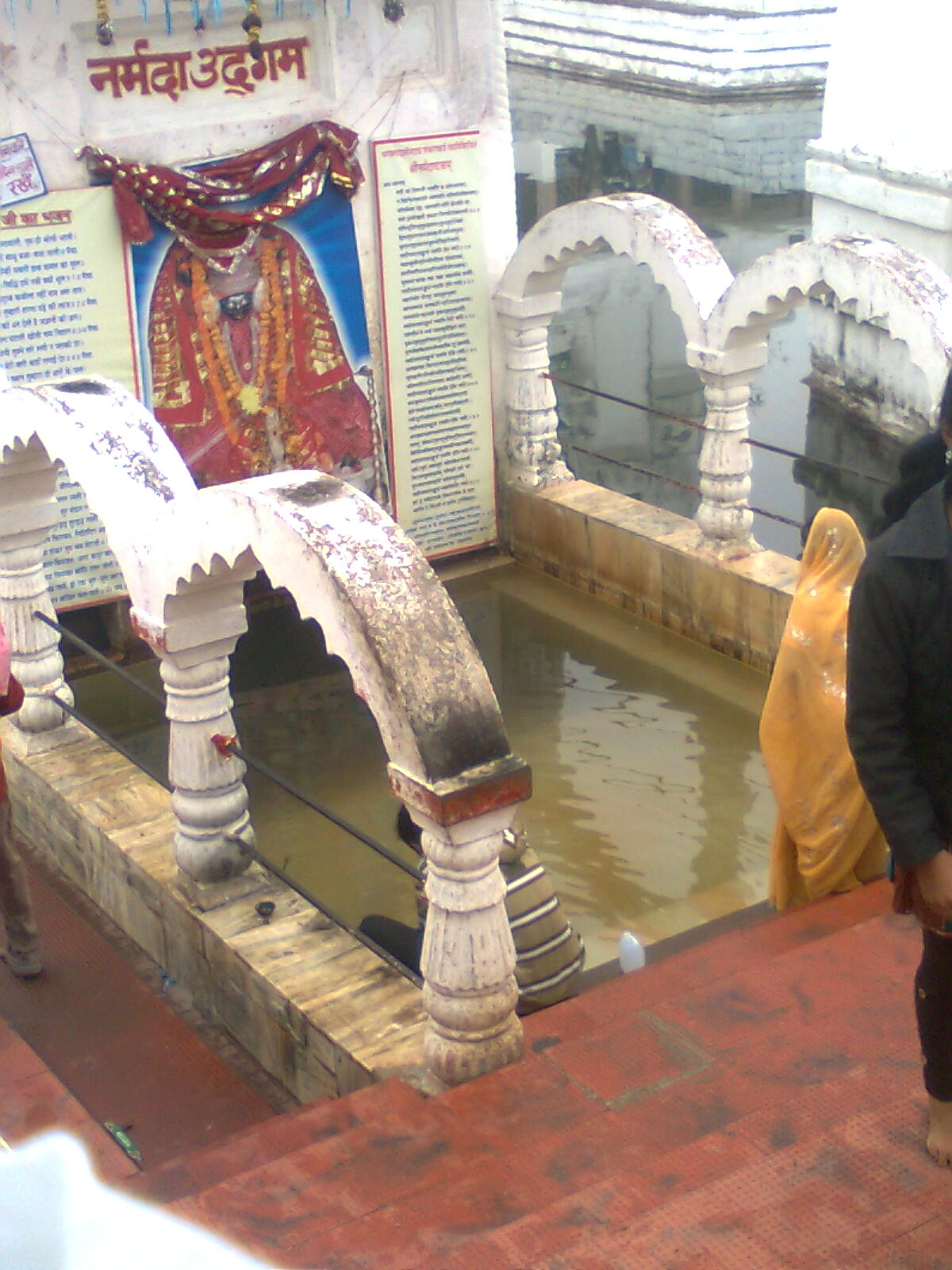 this temple is at indian satate of madhya pradesh in amarkantak this temple is of indian godess narmada and the water is shown is the origin of indian river NARMADA